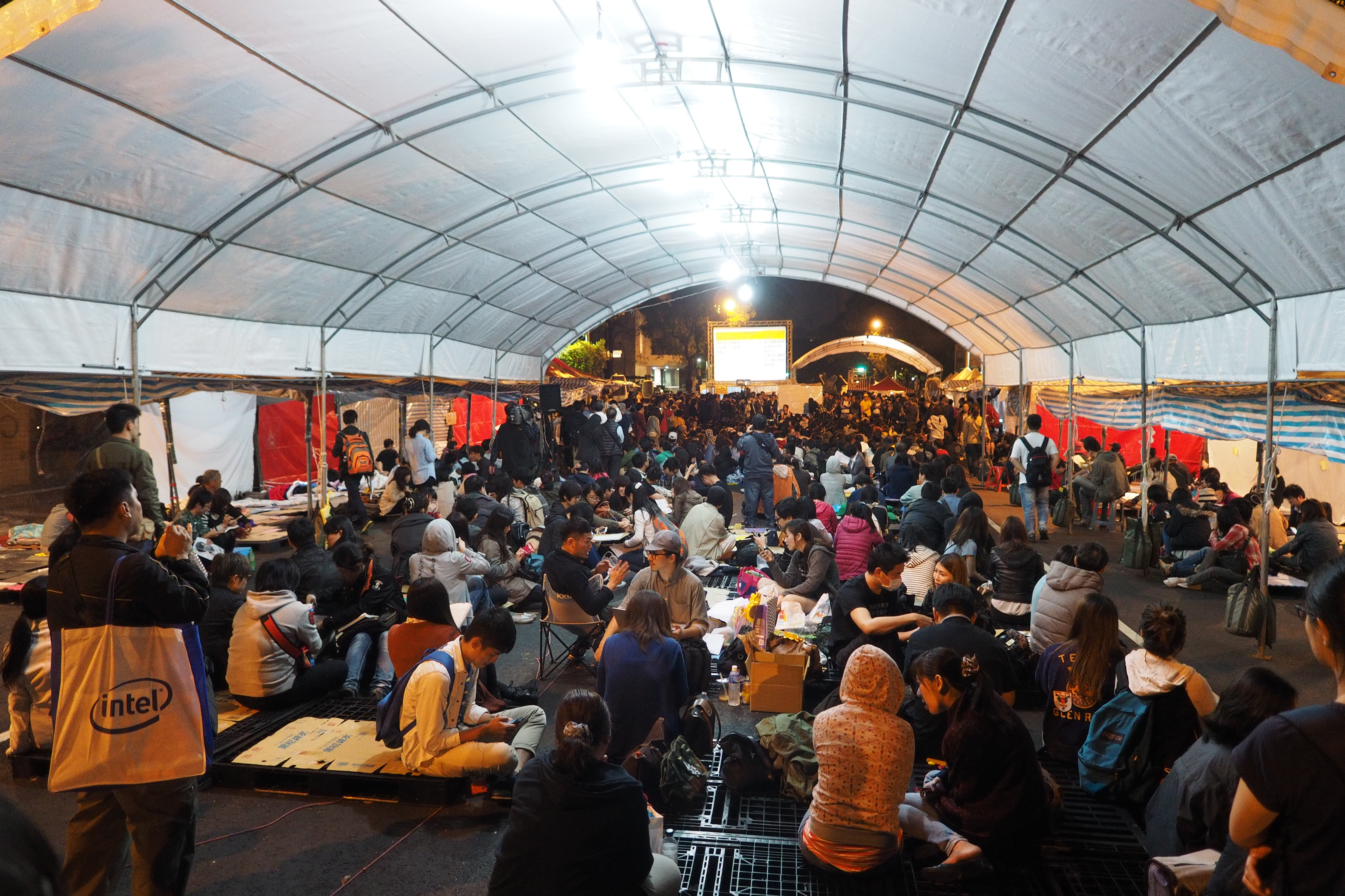 CongressOccupied #佔領立法院 #太陽花學運 太陽花學運